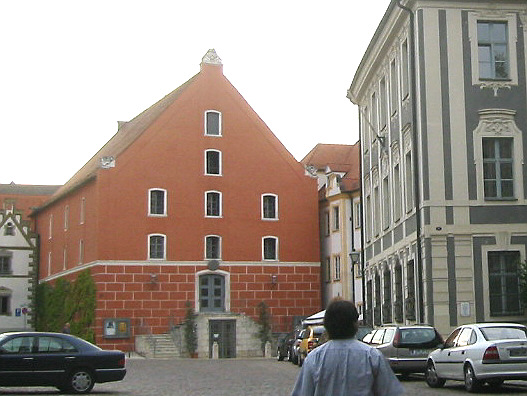 Neuburg an der Donau, Germany: Stadttheater (Municipal Theatre)